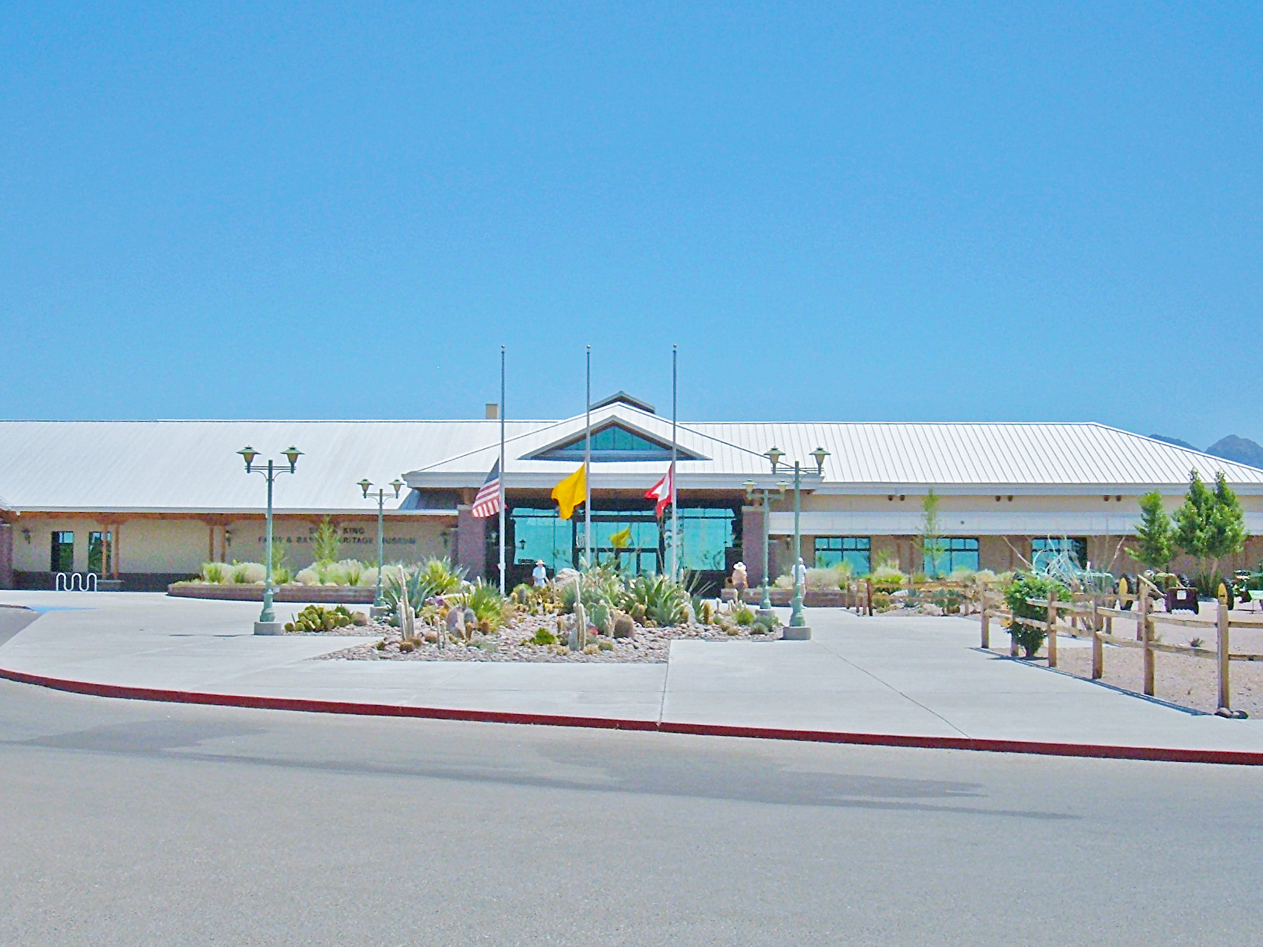 The New Mexico Farm and Ranch Heritage Museum — main museum building. Located in Las Cruces, Doña Ana County, New Mexico.